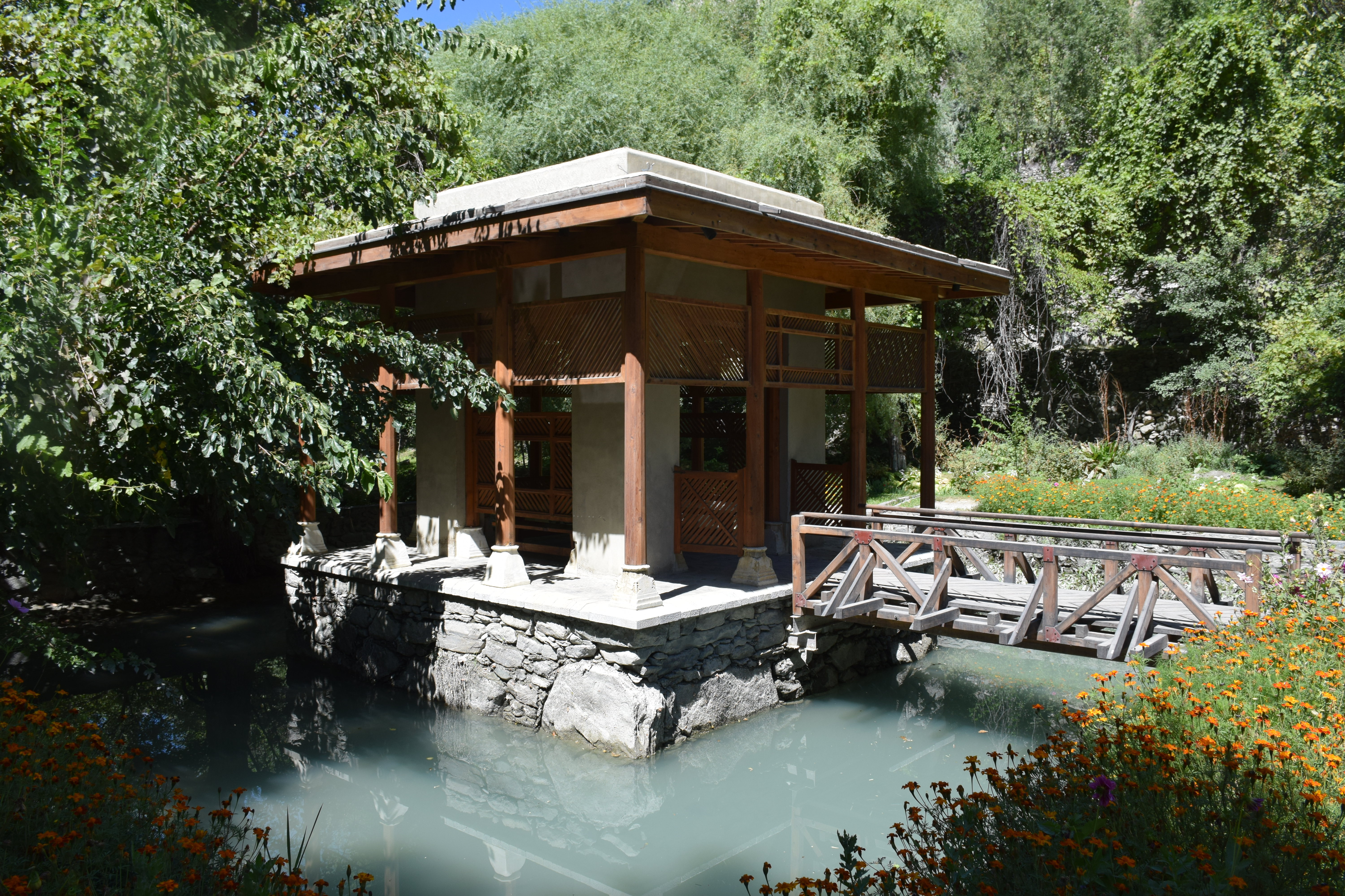 Shigar Fort This is a photo of a monument in Pakistan identified as the GB-21